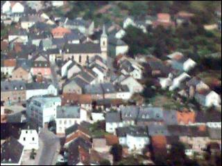 Luftaufnahme von Zewen (1970)